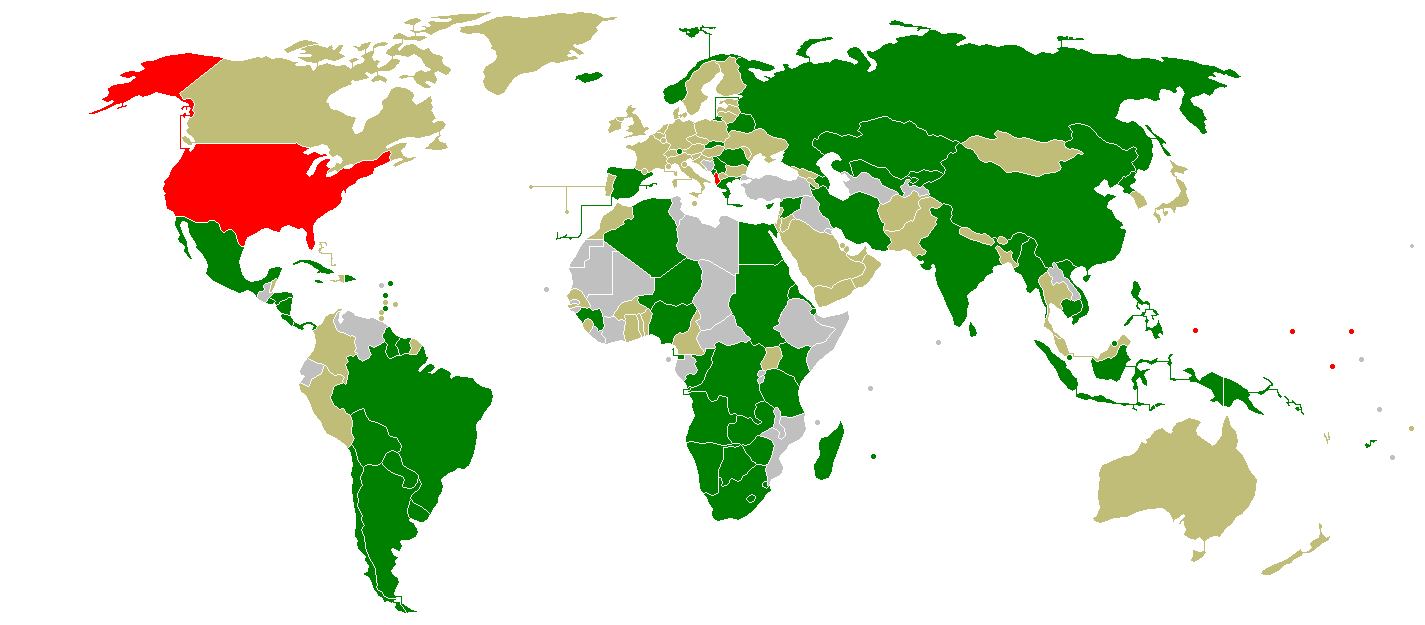 Map of vote on the resolution A/63/L.2 in the United Nations General Assembly. The resolution is about Requesting for an advisory opinion of the International Court of Justice (ICJ) according to the Kosovo declaration of independance, the draft resolution was submitted by Serbia.